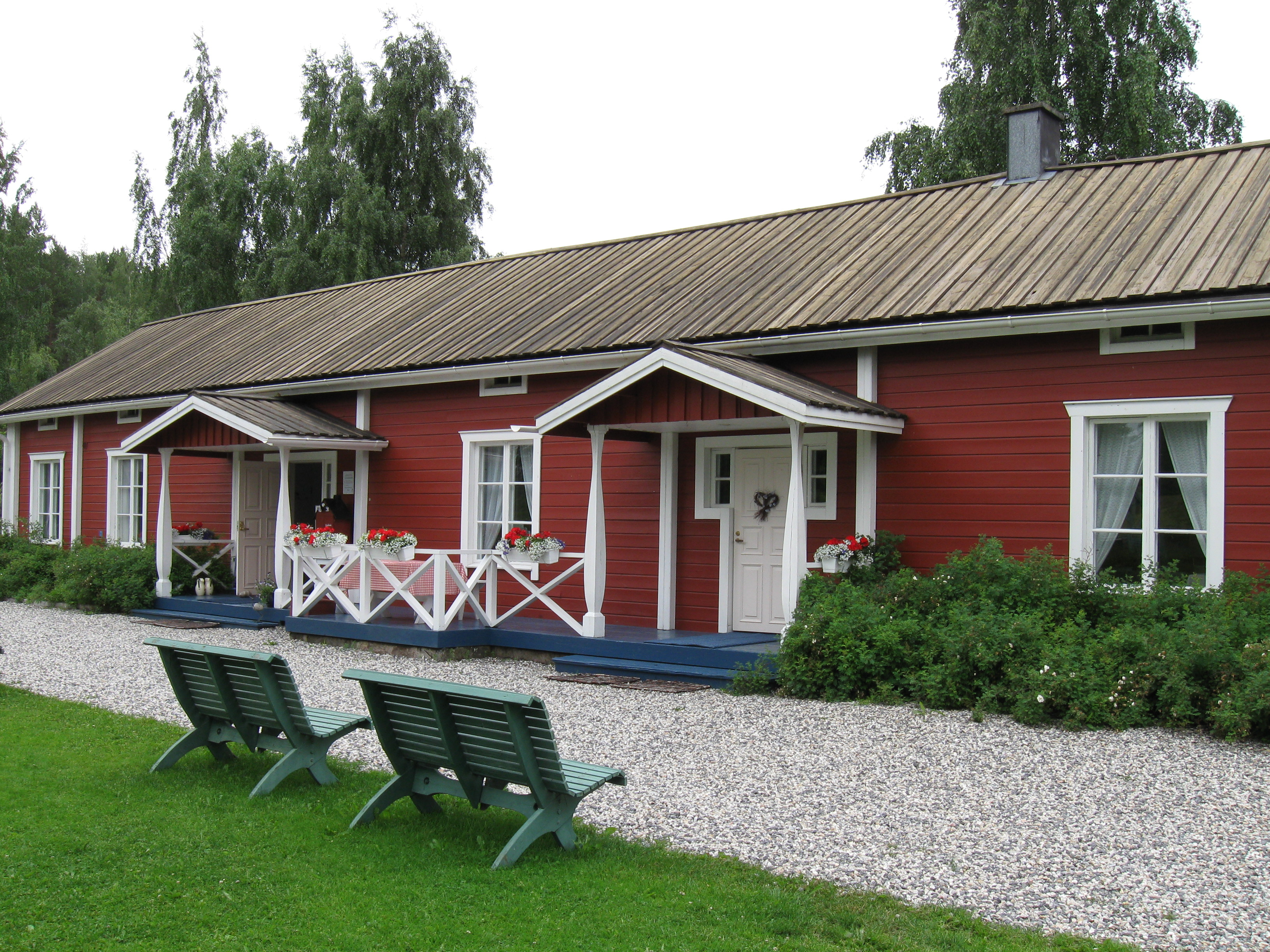 The reconstructed home "Hövelö" of the Finnish poet Eino Leino in Paltaniemi, Kajaani, Finland.